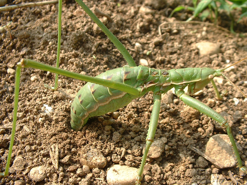 Saga pedo grasshoper lying eggs (Istria, Croatia)